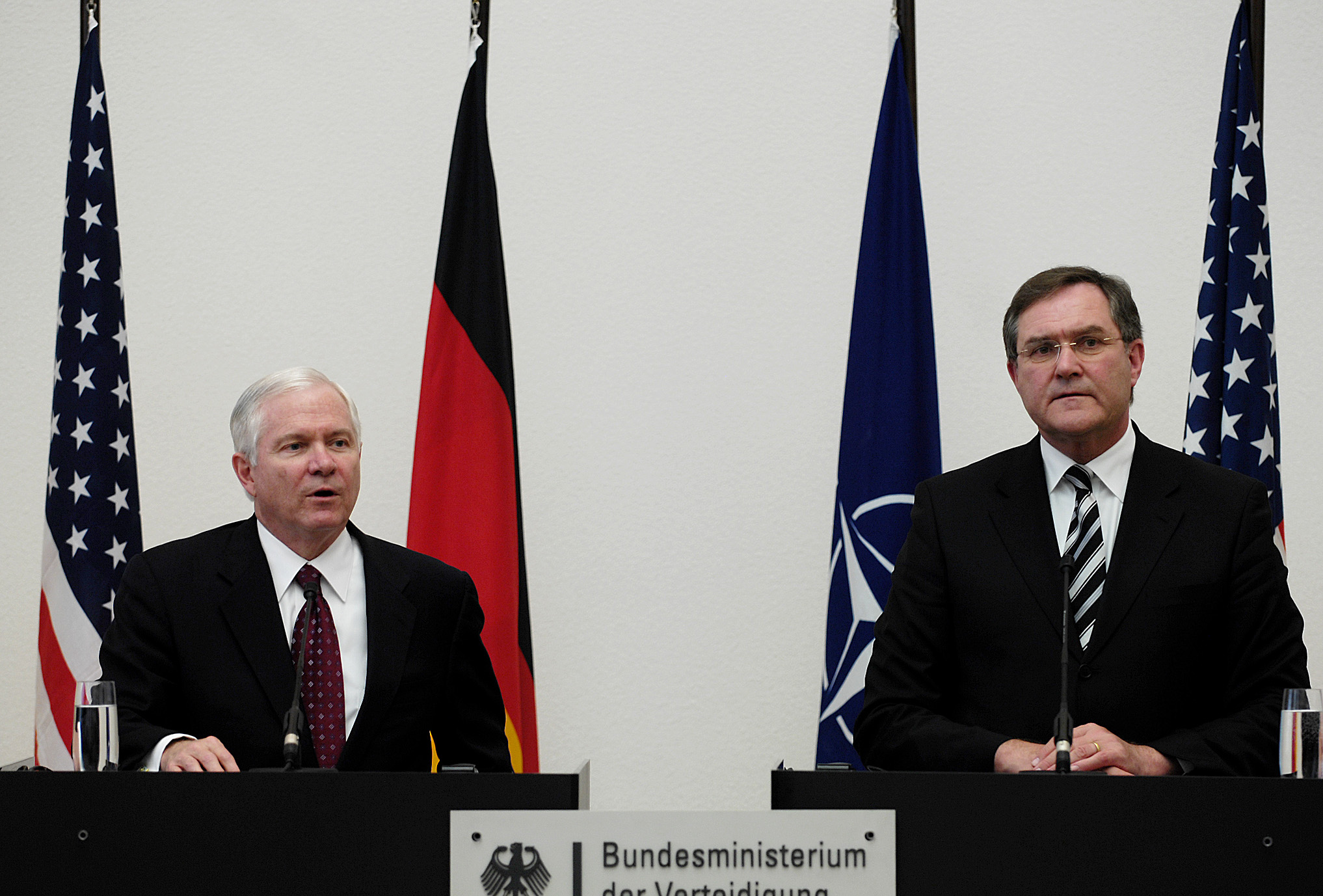 U.S. Defense Secretary Robert M. Gates conducts a press conference with German Minister of Defense Franz Josef Jung in Berlin.